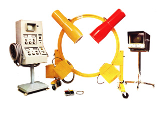 First Multiplanar from 1979. Patented and manufactured by Saab AB